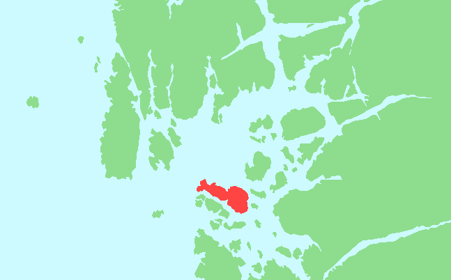 Locator map for the island of Rennesøy in Rogaland, Norway